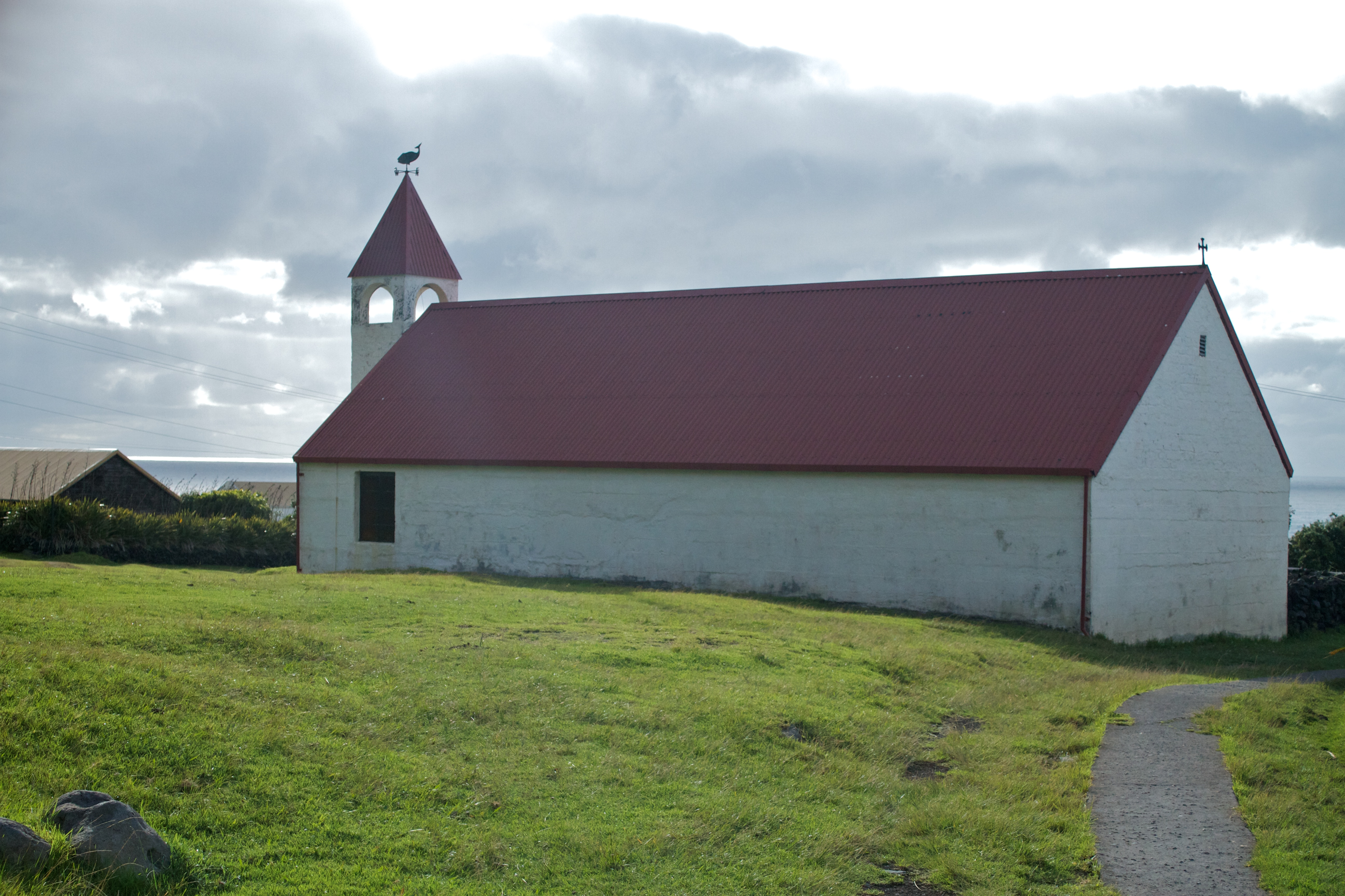 St Joseph's Church, built in 1995/6 to replace a smaller church on the same site built in 1983. The Roman Catholic faith was brought to Tristan by two Irish sisters, Elizabeth and Agnes Smith who had married Tristan men who returned to settle in 1908.